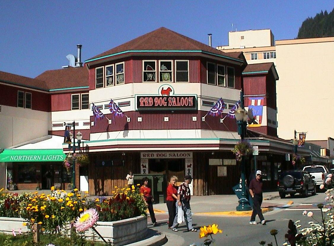 The Red Dog Saloon in Juneau, Alaska. I (Eric V. Blanchard) took this photo in August 2003. I permanently relinquish all rights to the work. Evb-wiki 20:01, 22 December 2006 (UTC)